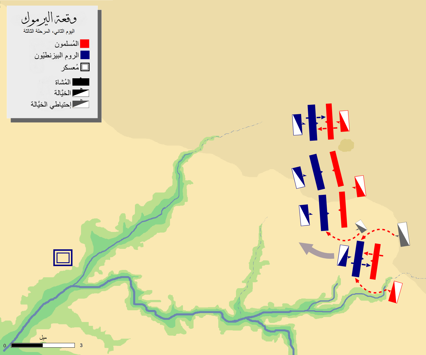 Battle_of_Yarmouk-day-2_phase-3